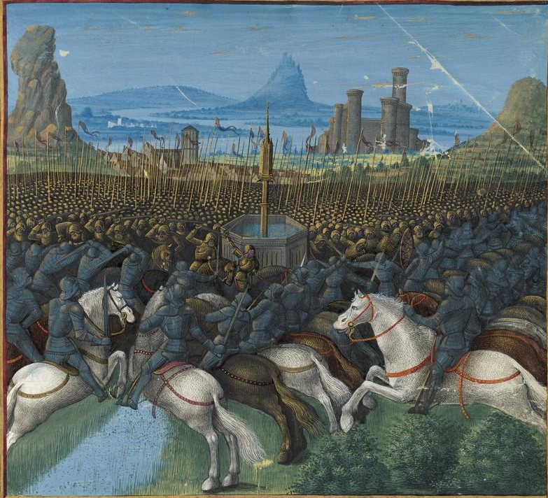 Miniature: battle of Kefr Kana, 1187